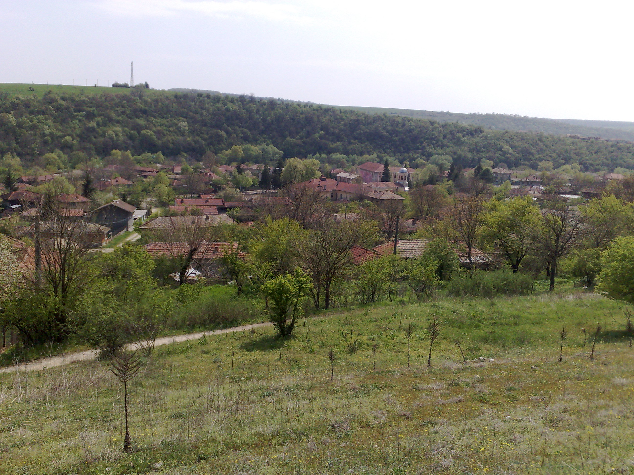 Krivnya